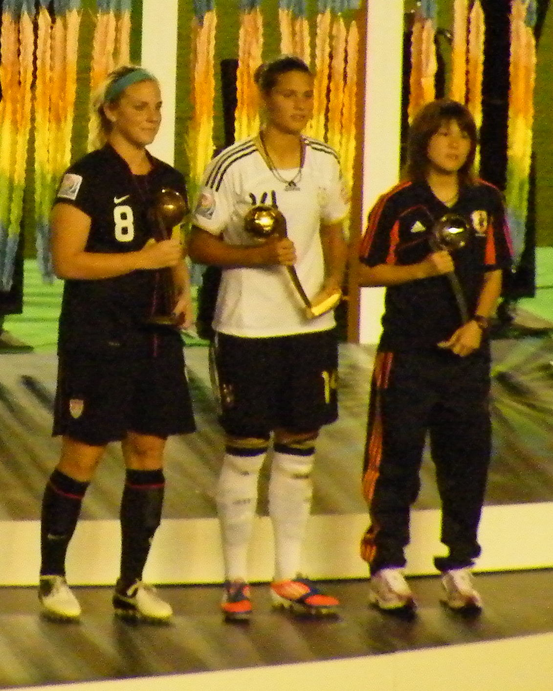 FIFA U-20 Women's World Cup 2012 Awards Ceremony. L-R: Julie Johnston (Bronze Ball), Dzsenifer Marozsán (Golden Ball) and Hanae Shibata (Silver Ball).